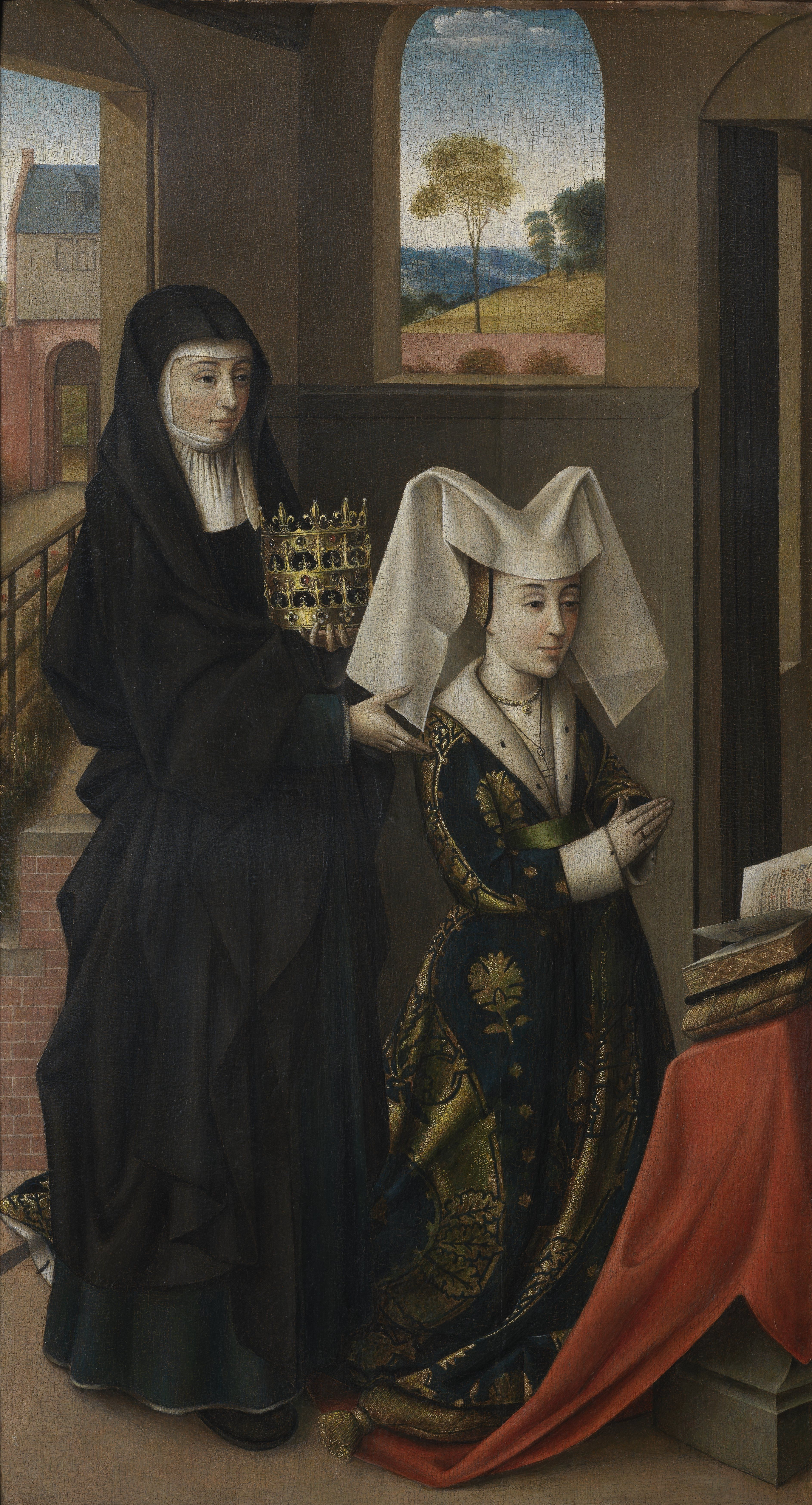 Isabel of Portugal with Saint Elizabeth